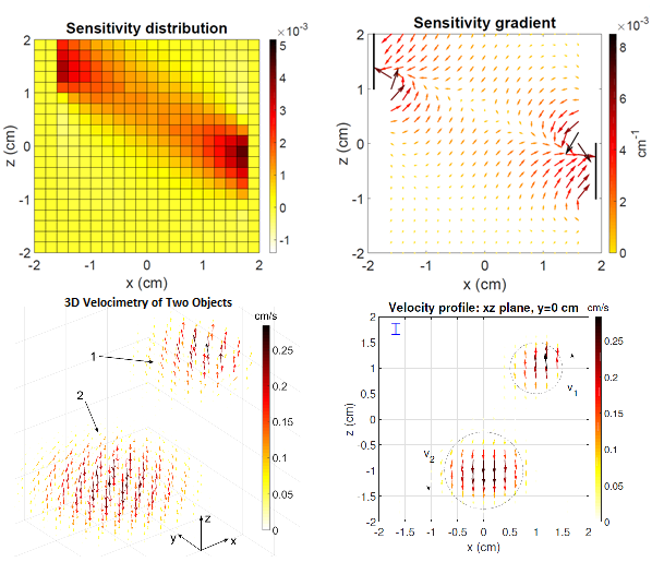 Velocimetry from ECVT data calculated from a method of gradients